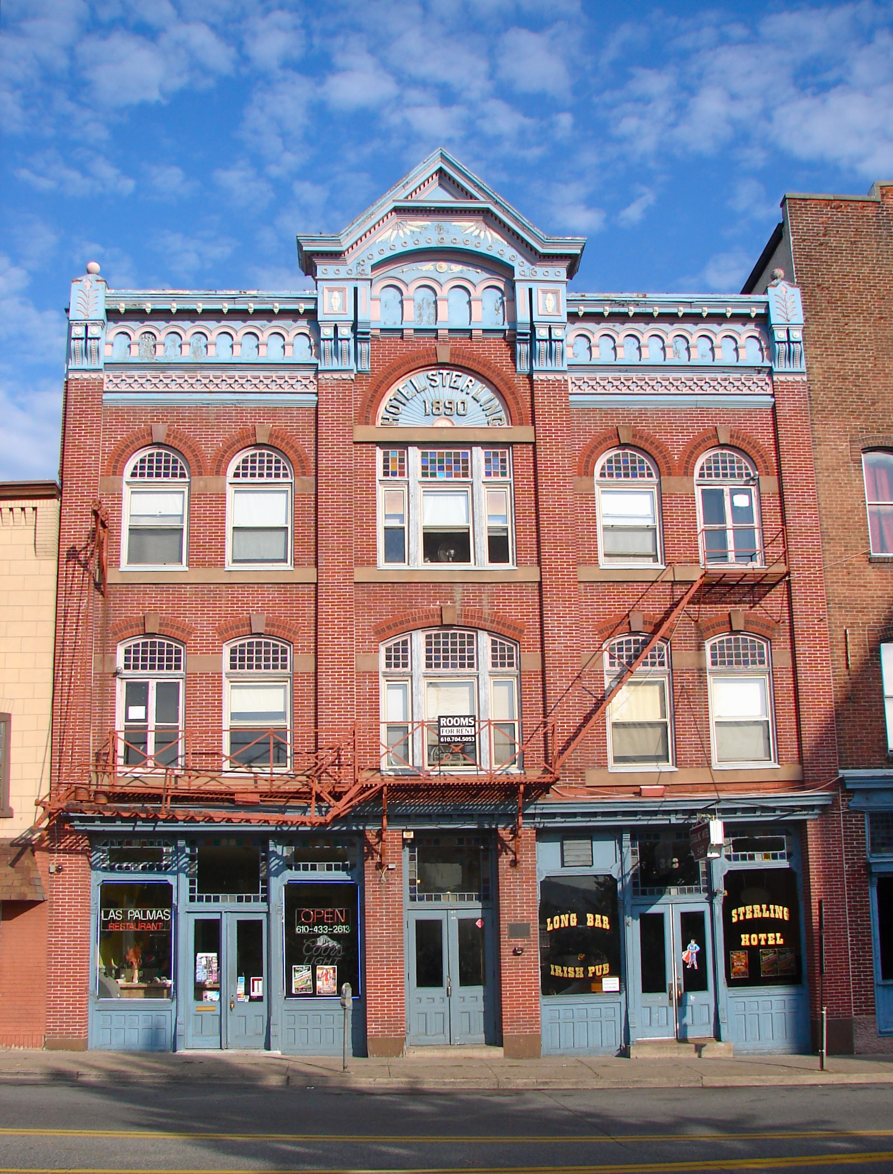 Hotel Sterling on the NRHP since May 3, 1984. At 343–345 Hamilton Street, Allentown, Pennsylvania. Nice building in good shape, still operating as a bar and hotel.